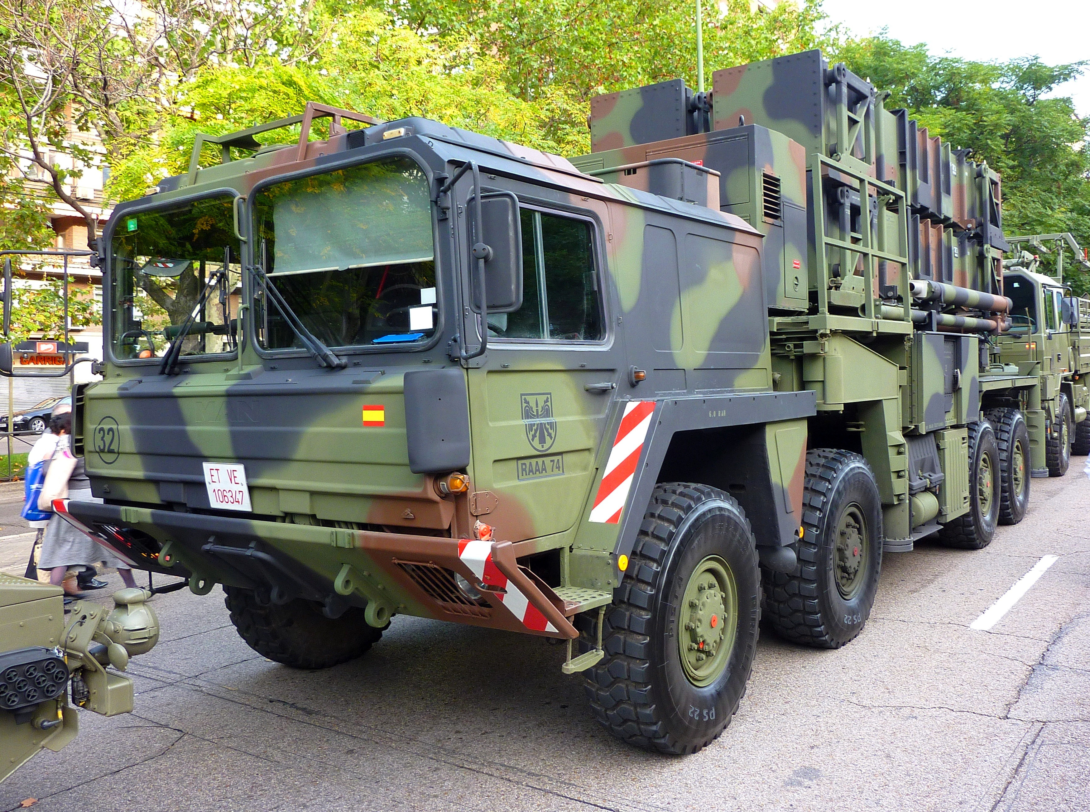 Spanish Army MIM-104 Patriot (TEL vehicle).